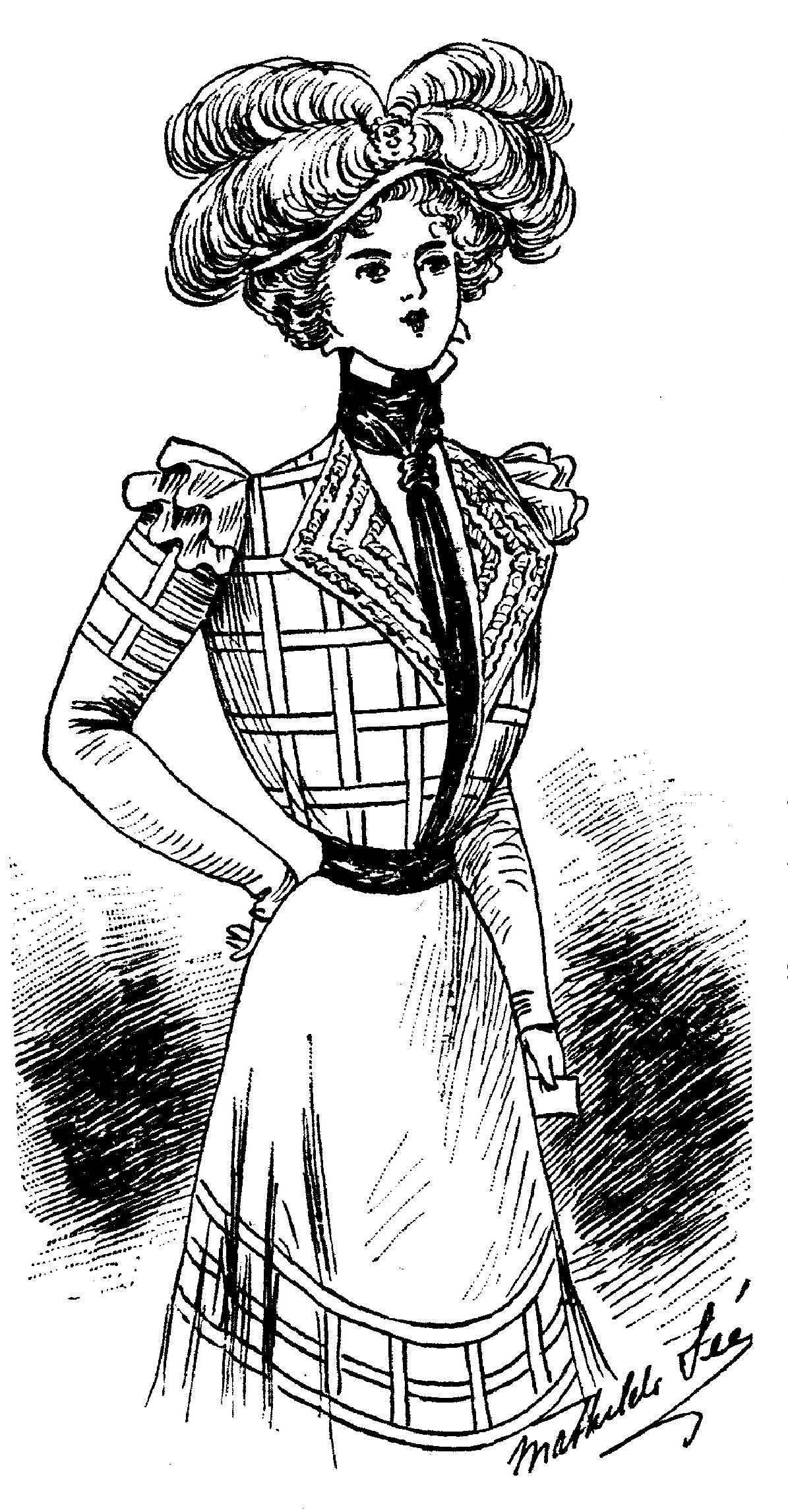 "Dainty little dress from Charvet of shirt-waist fame. It is of a light summer wool, trimmed with bias bands of the same, interwoven and stitched in the charming manner the drawing shows. The skirt is also trimmed with bias bands, as well as the sleeves. The revers of the waist are of faille blanche, trimmed with tiny shirred satin ribbons. The belt is of black satin, as in the 'Lavallière' cravat.The chemisette is of white linon with a little turned-over collar.